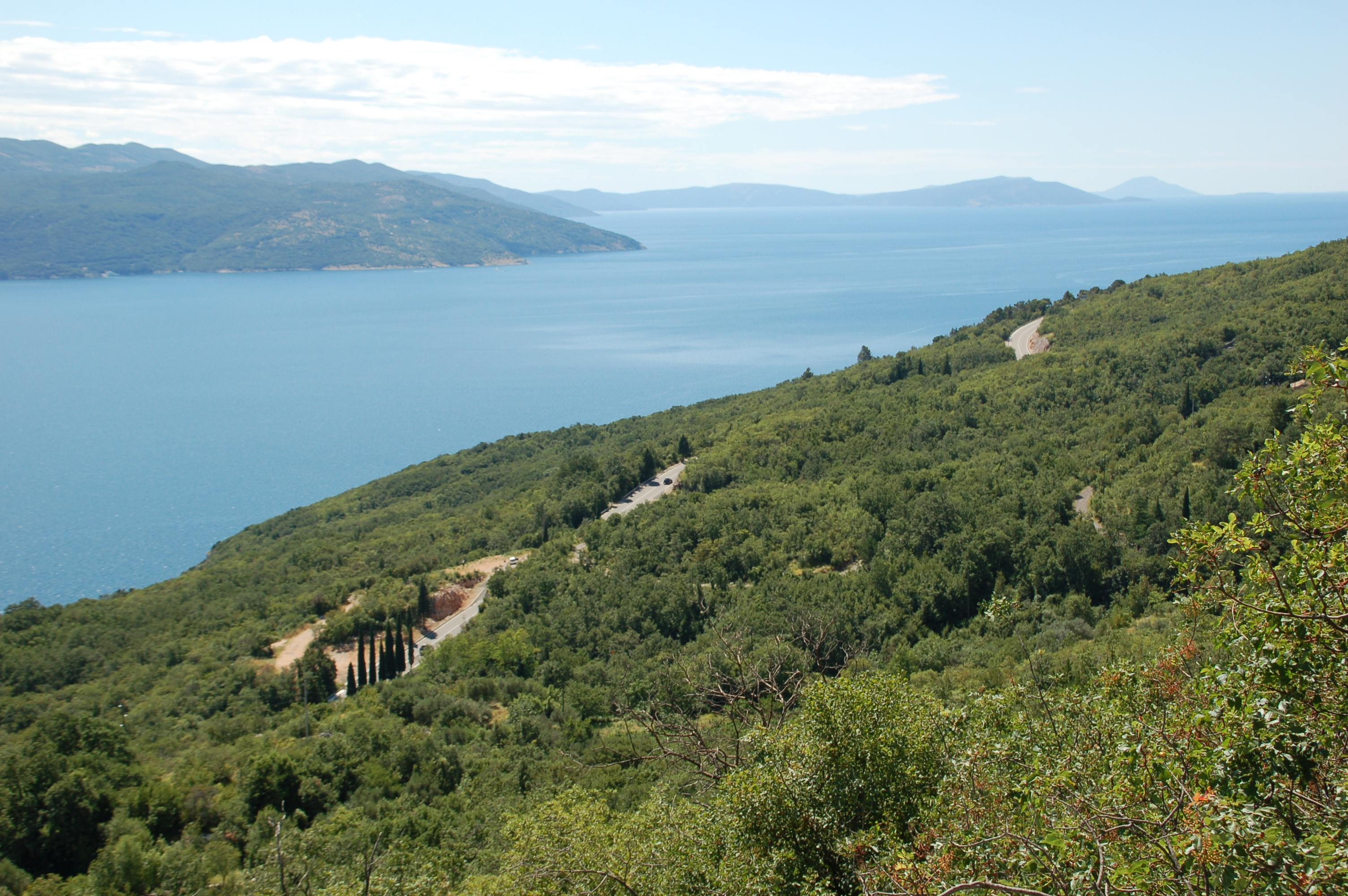 Ferry Brestova - Porozina, Croatia, Istria, view from Brseč